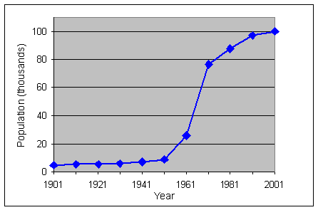 Graph of population of Crawley, West Sussex 1901-2001